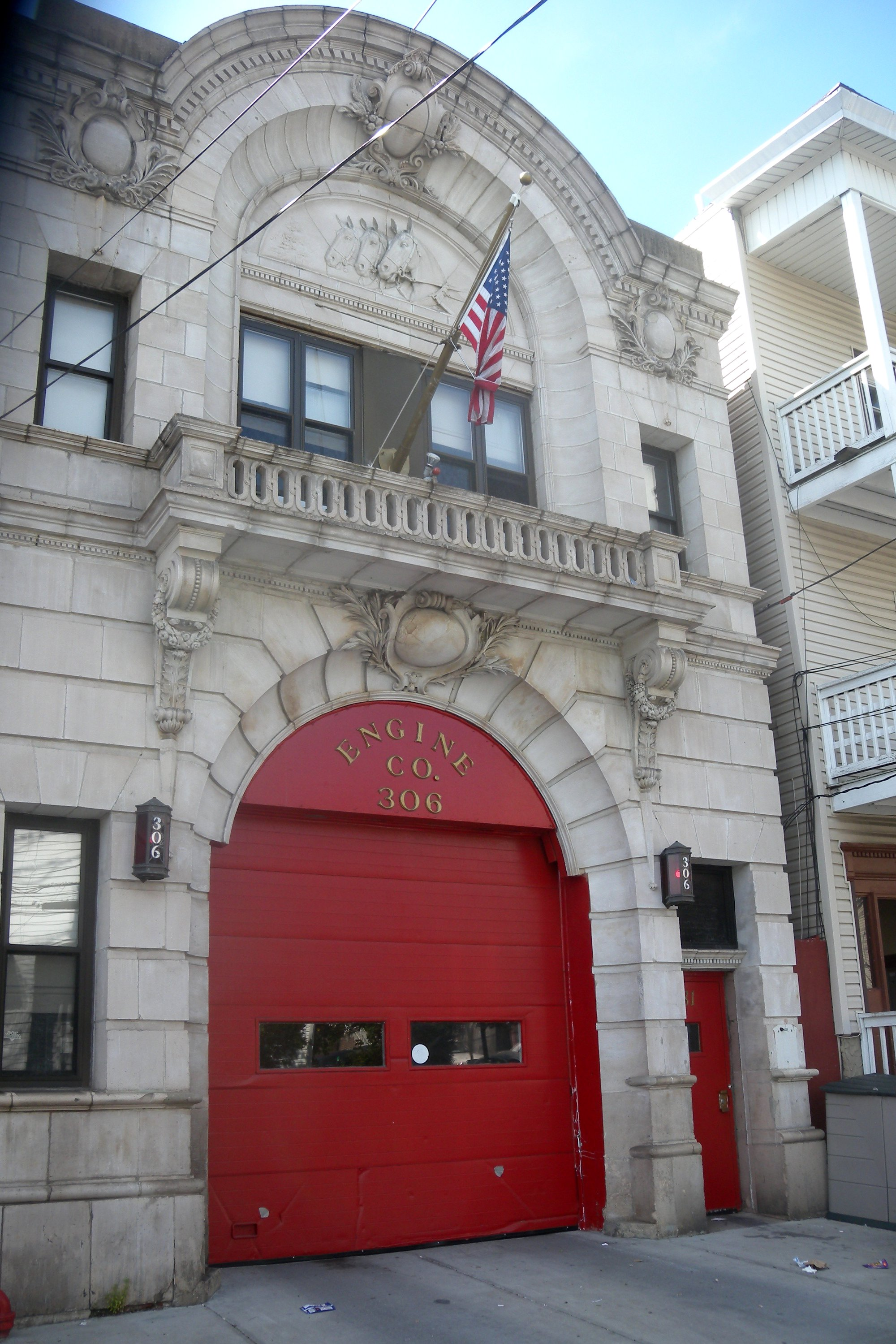 Looking northwest at Engine 306 house, 81 Oak Street, on a sunny afternoon. EXIF coords are wrong due to photographer's error.